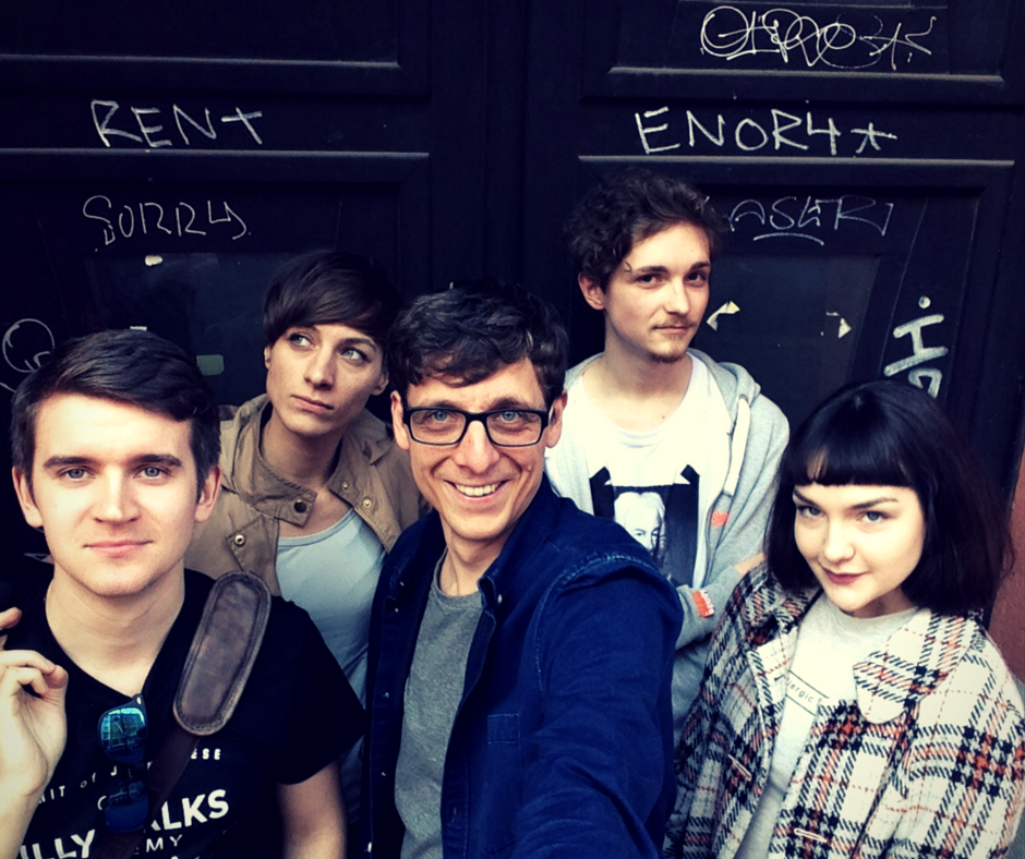 Hard to Frame took this image infront of café Prádelna in 2017, Prague